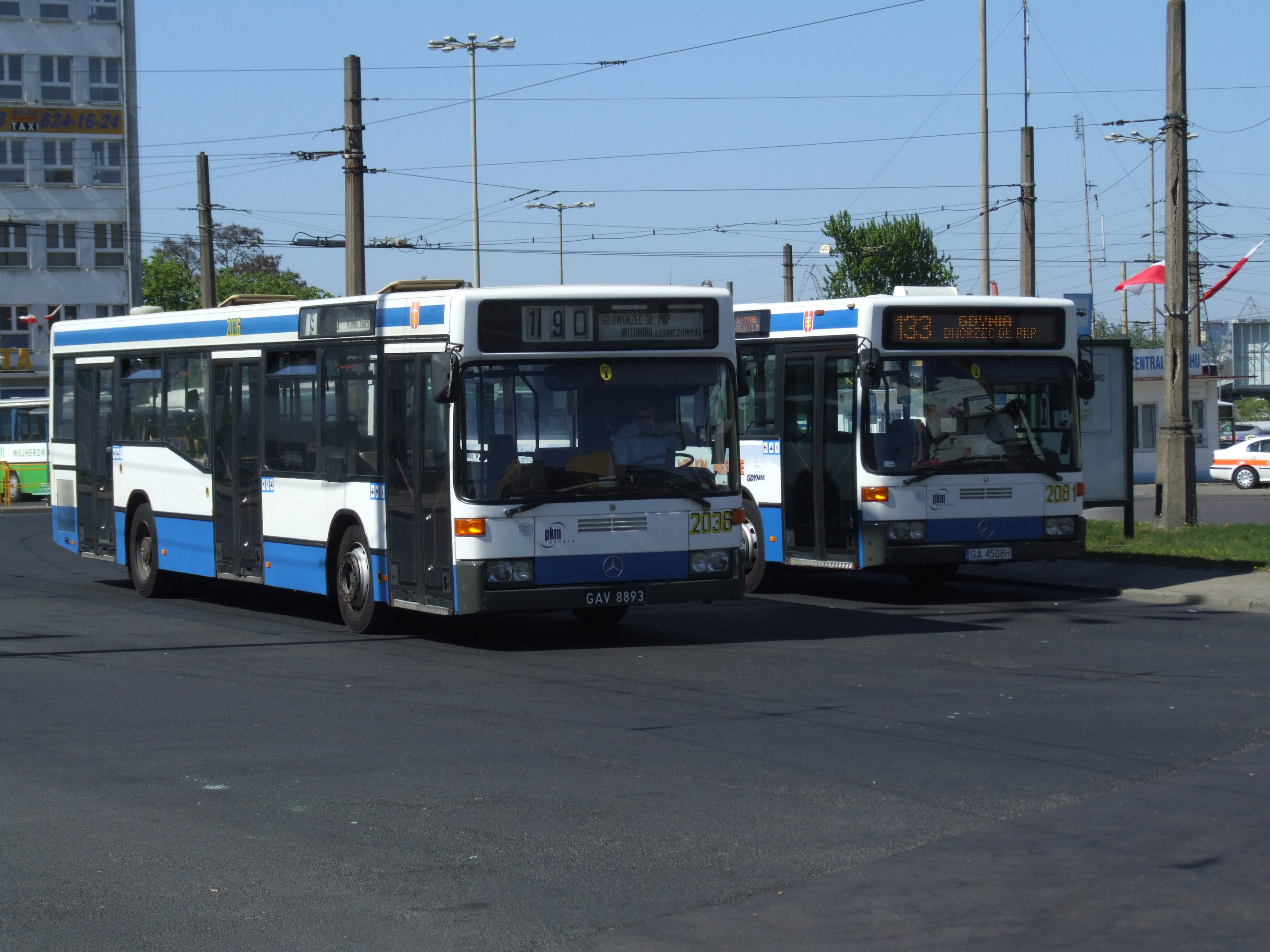 From left to right: Jelcz M122MB bus with Mercedes-Benz O405N2 chassis (#2036, reg. GAV 8893, built 1996, PKM Gdynia operator) and Mercedes-Benz O405N bus (#2081, reg. GKA PL56, built 1991, PKM Gdynia).